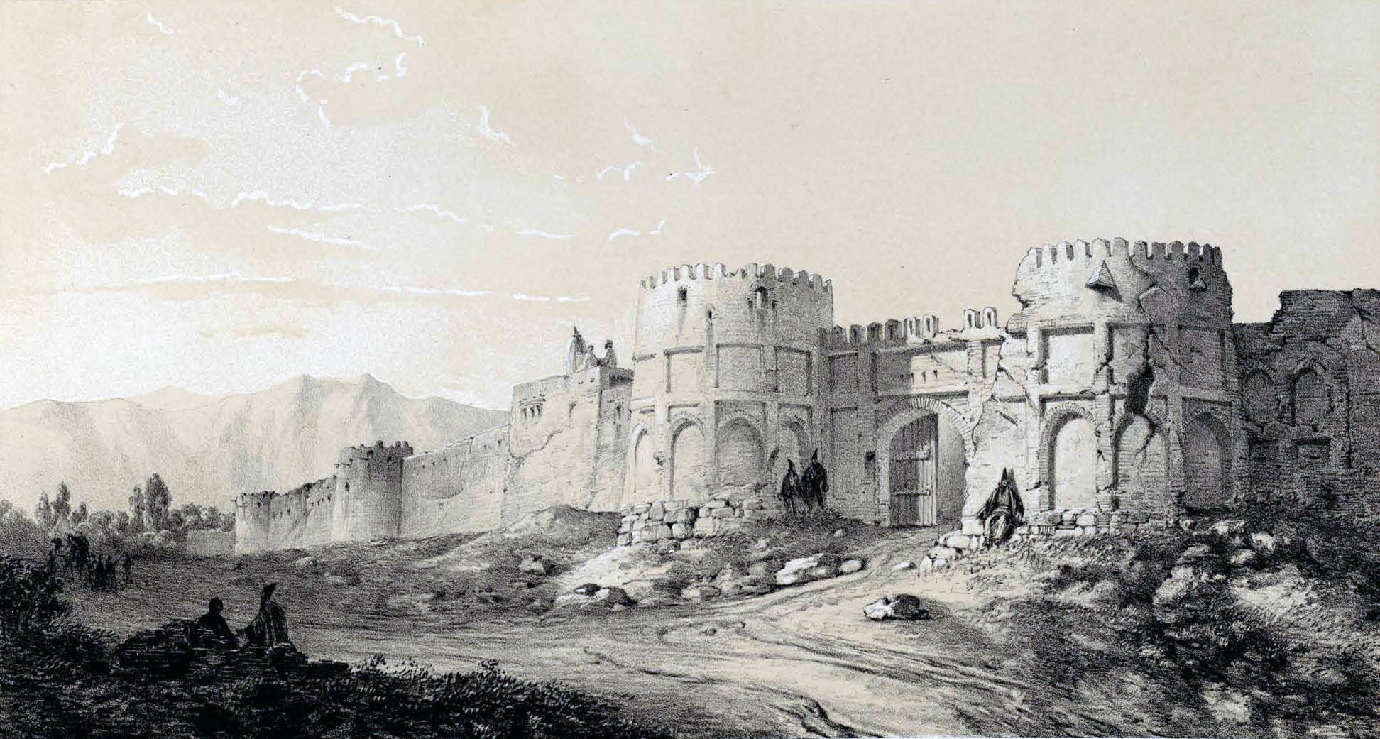 Walled enclosure Zengan